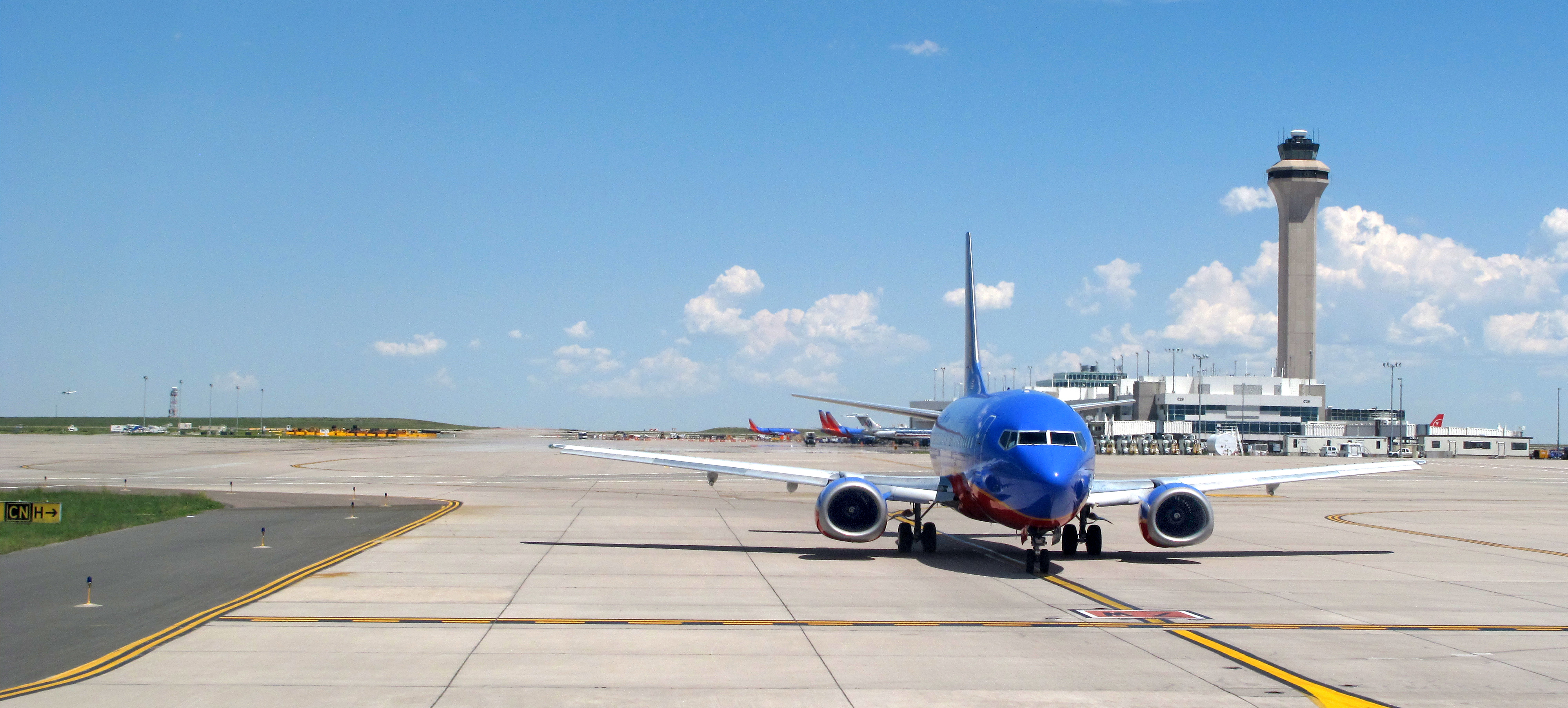 Southwest Airlines airplane on the runway prior to takeoff at Denver International Airport, Denver, Colorado, USA, the second largest airport in the world. Geolocation is approximate.